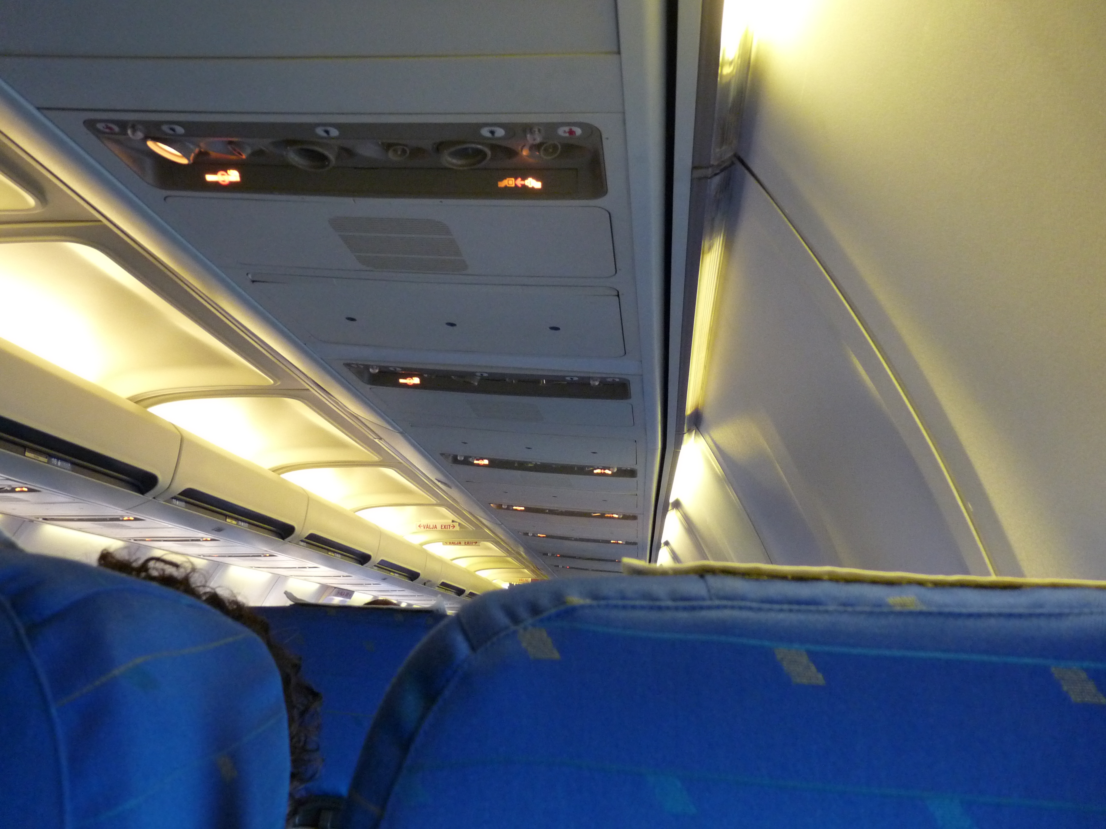 Inside of Boeing 737